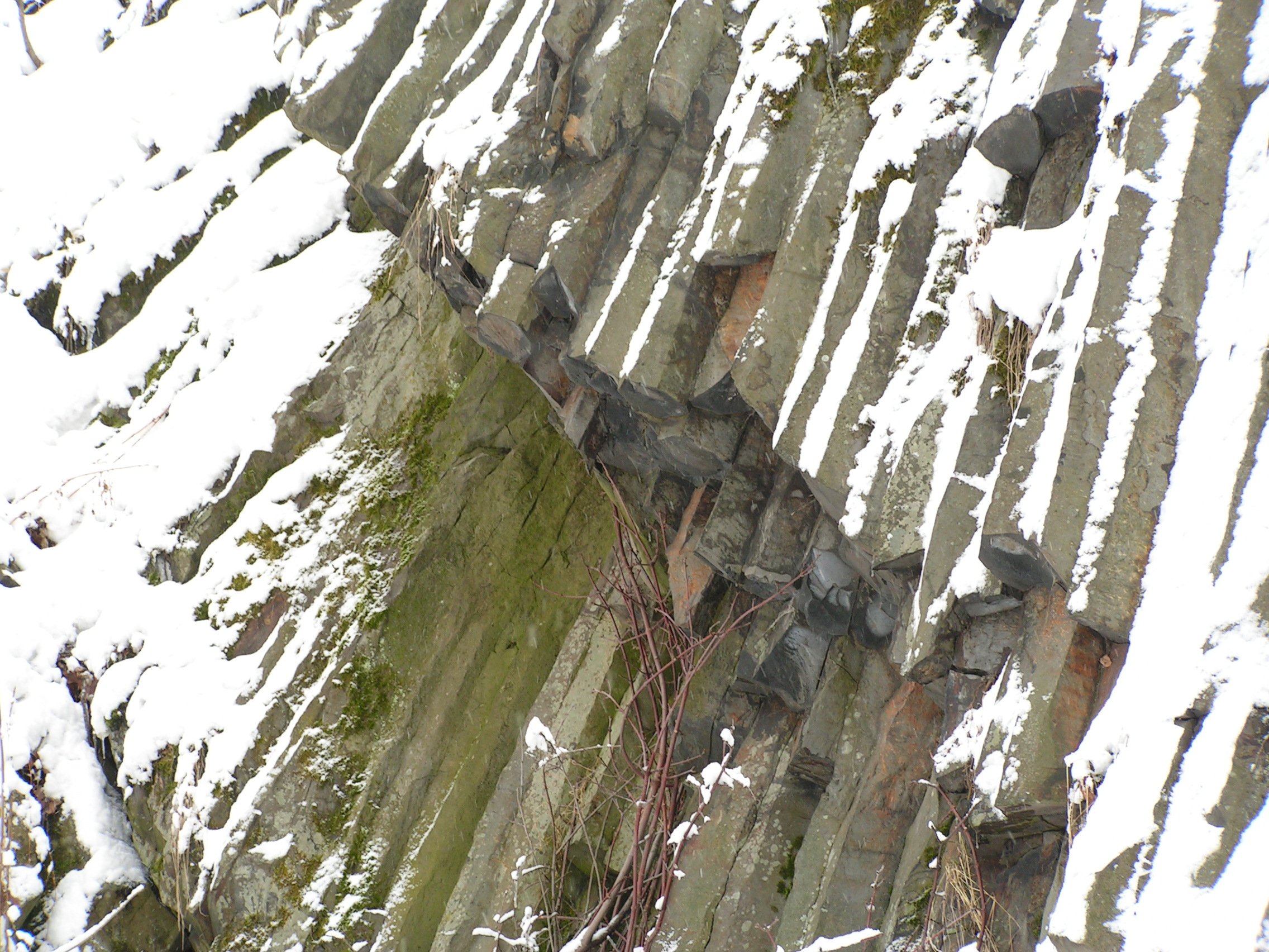 Małe Organy Myśliborskie (Poland) - a formation of the columnar rhyollite, formed from cooling lava in volcanic neck. Picture taken by Magdalena Skrabut, February 2006.